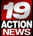 Logo of 19 Action News, which airs on WOIO and WUAB